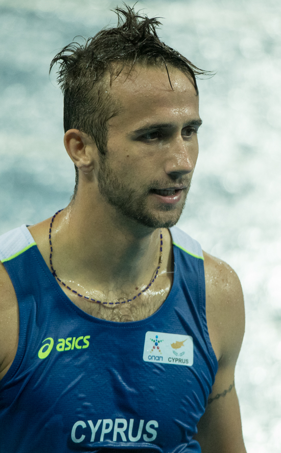 Image of Milan Trajkovic at the 2016 Olympic games 110m mens hurdles qualification